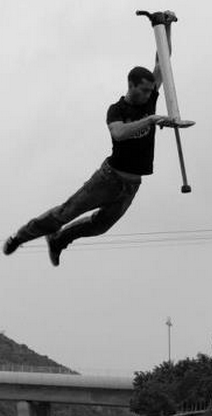 An Xpogo athlete performers a Superman in Hong Kong